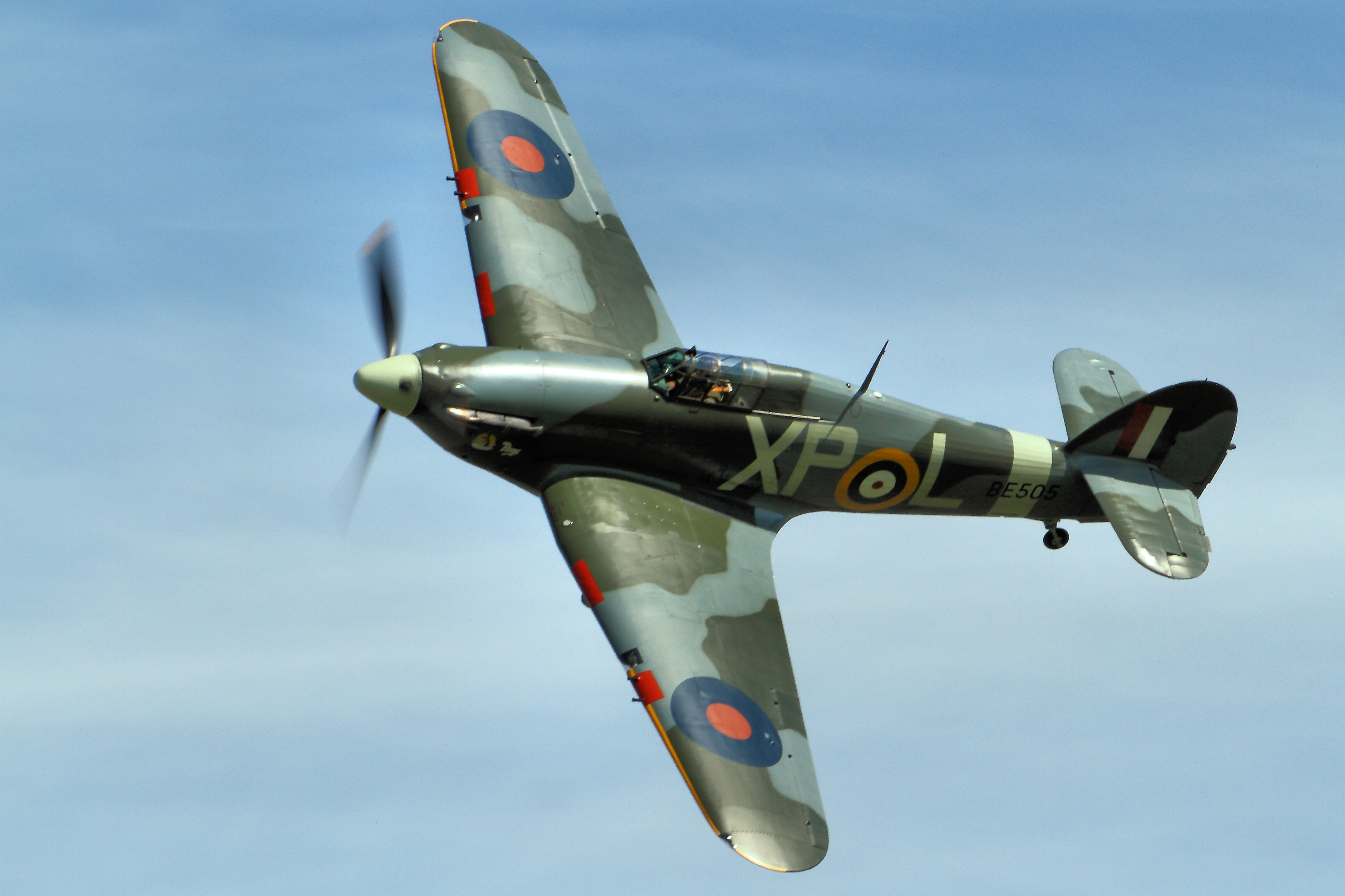 Dunsfold Wings and Wheels 2014